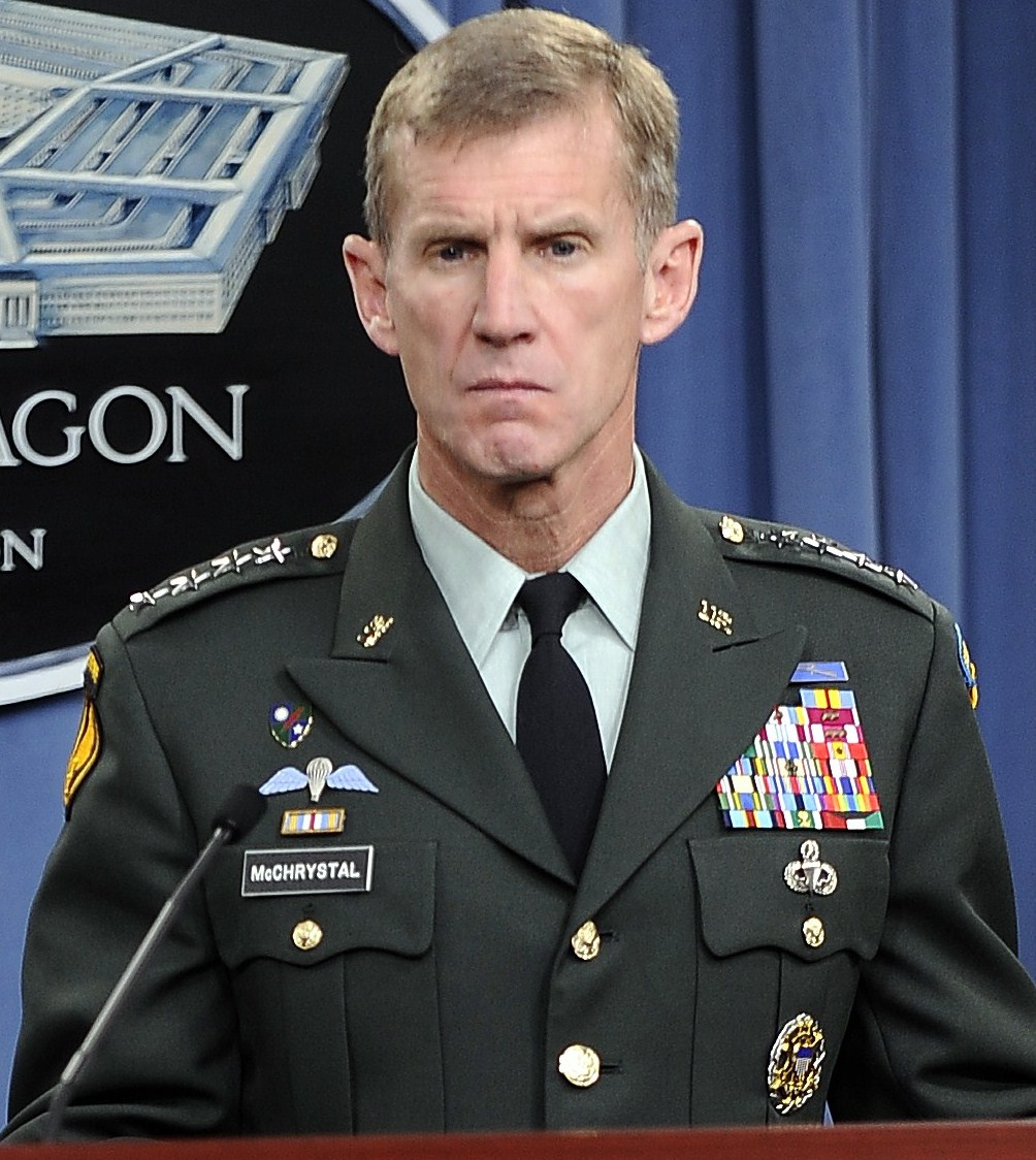 100513-F-6655M-016 U.S. Army Gen. Stanley McChrystal, commander of NATO's International Security Assistance Force, listens to a question from a reporter during a press conference in the Pentagon May 13, 2010. (DoD photo by Master Sgt. Jerry Morrison, U.S. Air Force/Released)